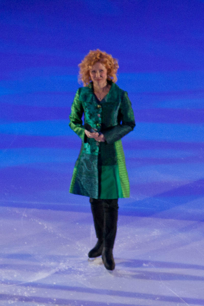 Susanna Rahkamo at Synchro Worlds 2011 Helsinki FInland